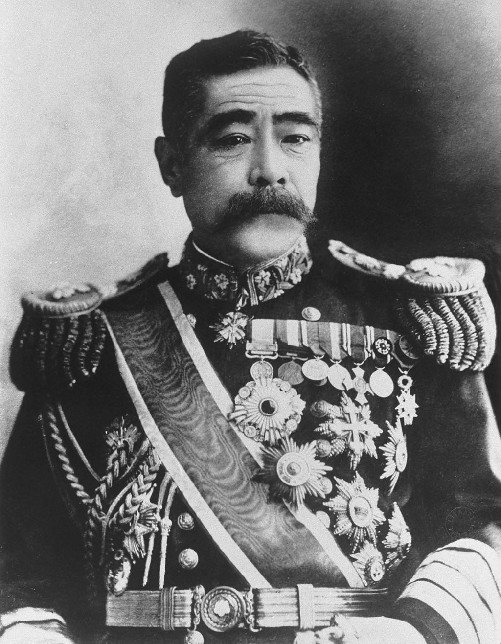 Portrait of General and Marshal Admiral The Marquis Saigō Jūdō (Tsugumichi) (西郷従道, 1843 – 1902)